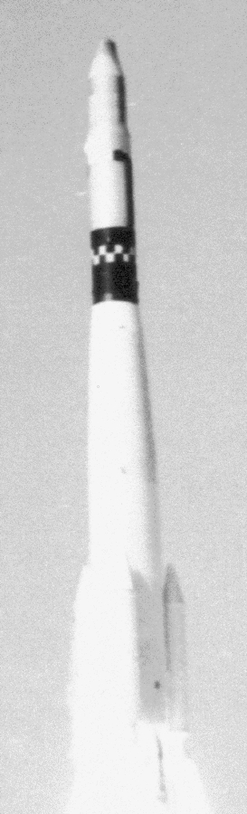 Launch of the Thor SLV-2A Agena D rocket with satellite KH-4A 1025 (CORONA 101, OPS 5325)), October 5, 1965.